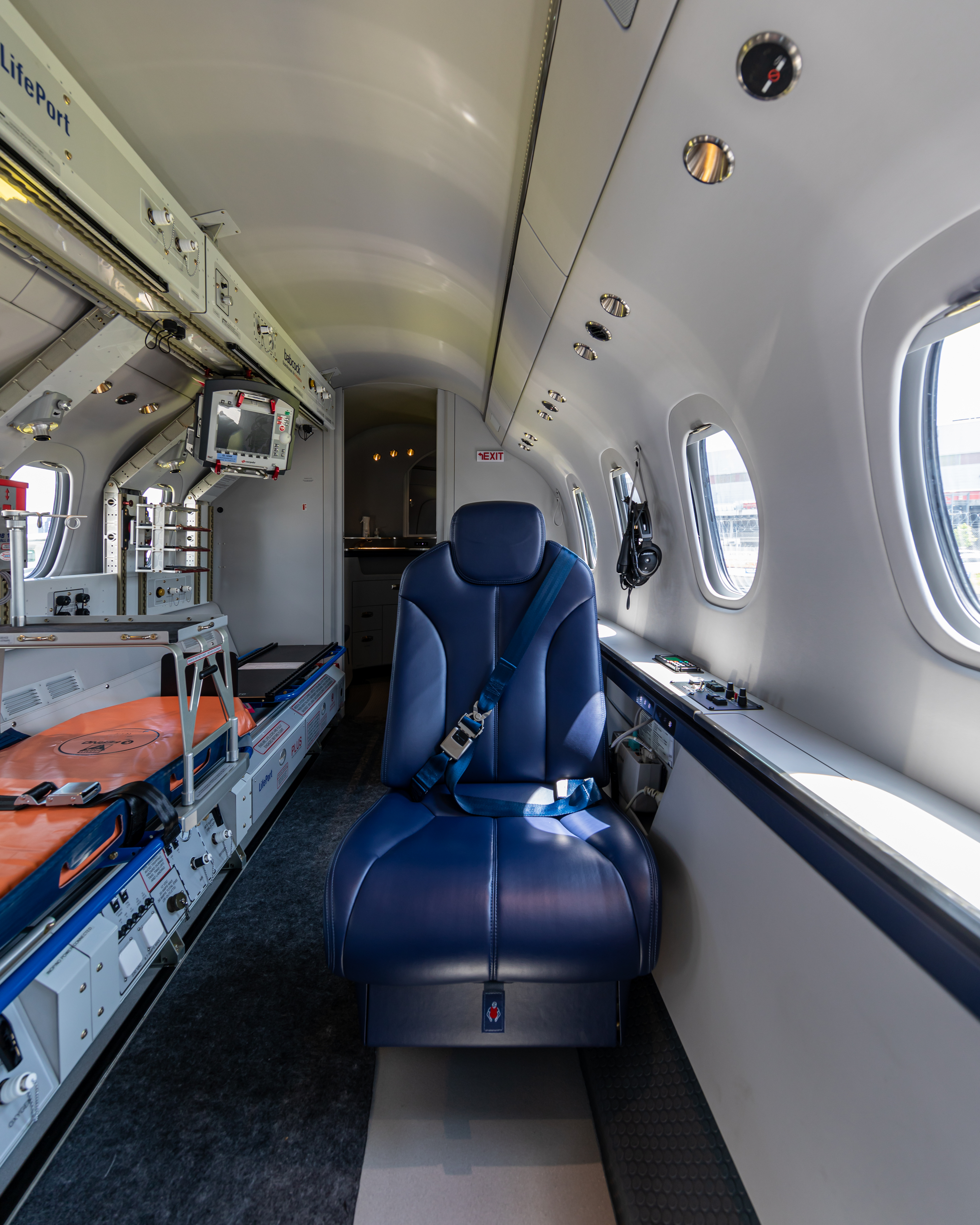 EBACE 2019, Palexpo, Switzerland